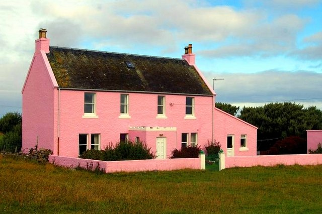 Pink house / Taigh pinc This house is called Tullymet (thanks to Isabel Whyte for the information). The choice of colour would be more common in Suffolk than the Hebrides!